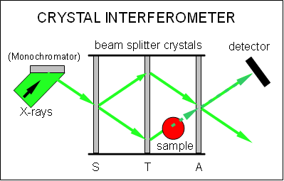 Drawing of Crystal interferometer (Phase-contrast X-ray imaging technique)